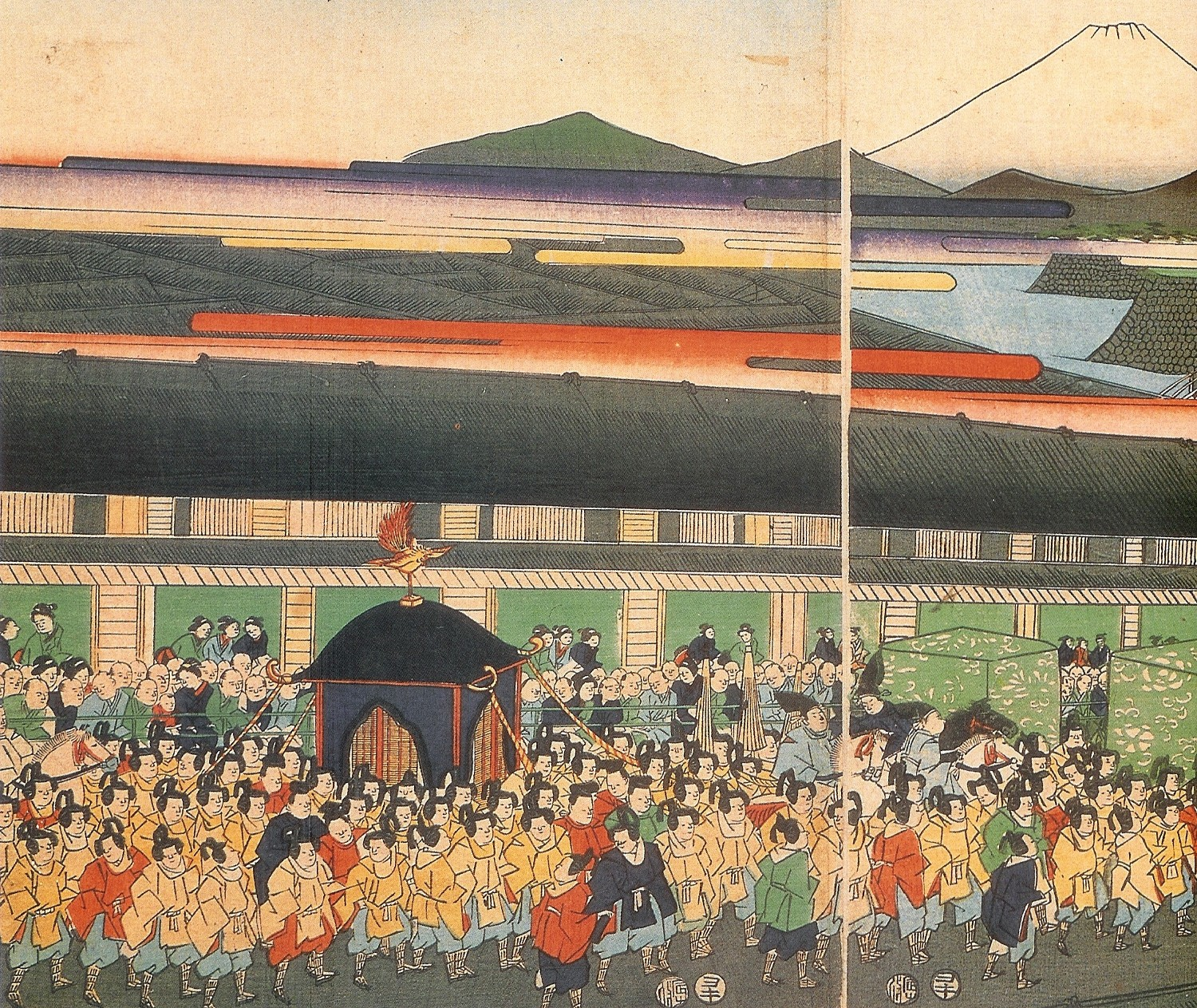 Meiji Tennô arrives at Tokyo